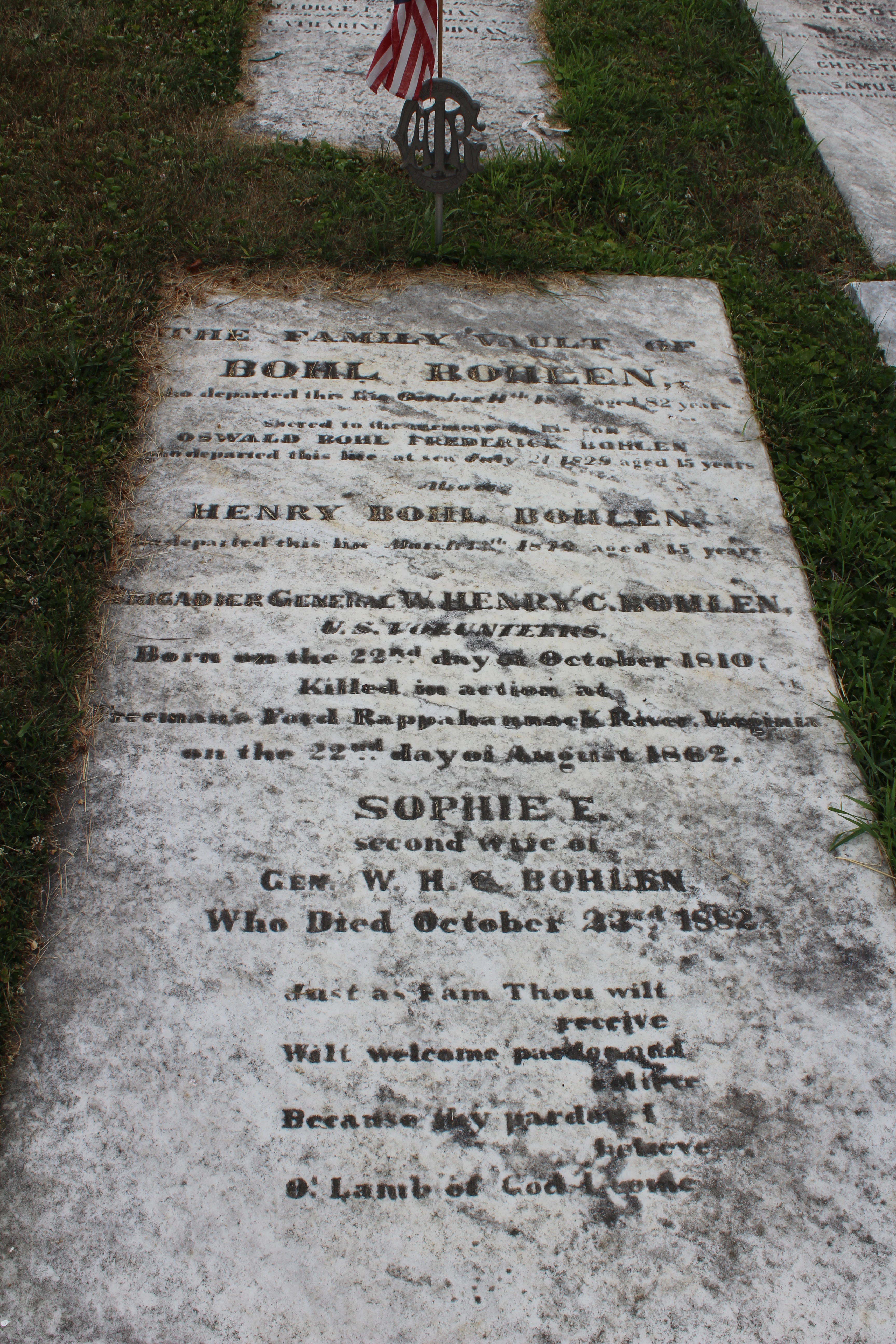 Henry Bohlen tombstone in Laurel Hill Cemetery. Photo taken July 2020.